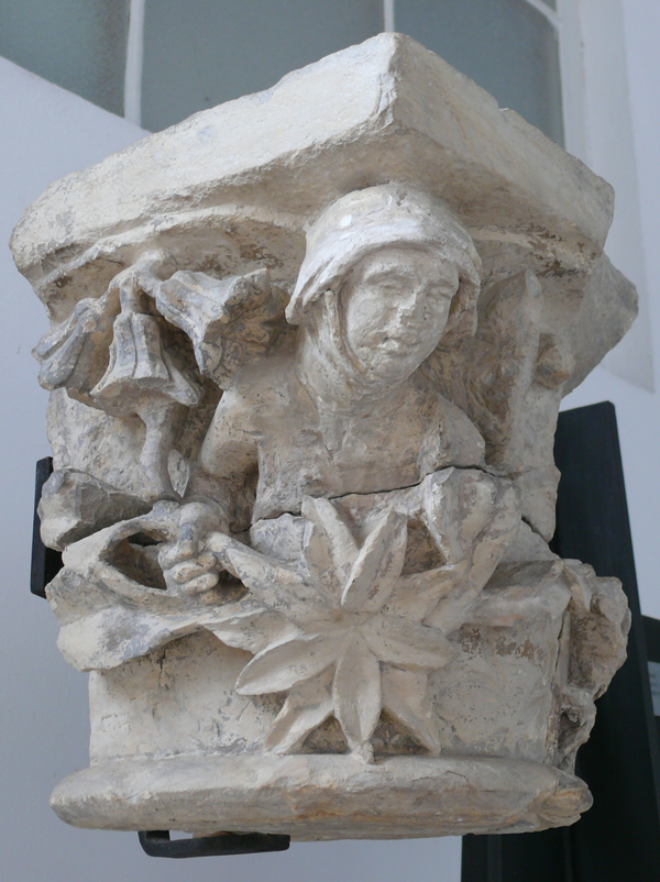 Convent of St Agnes of Bohemia